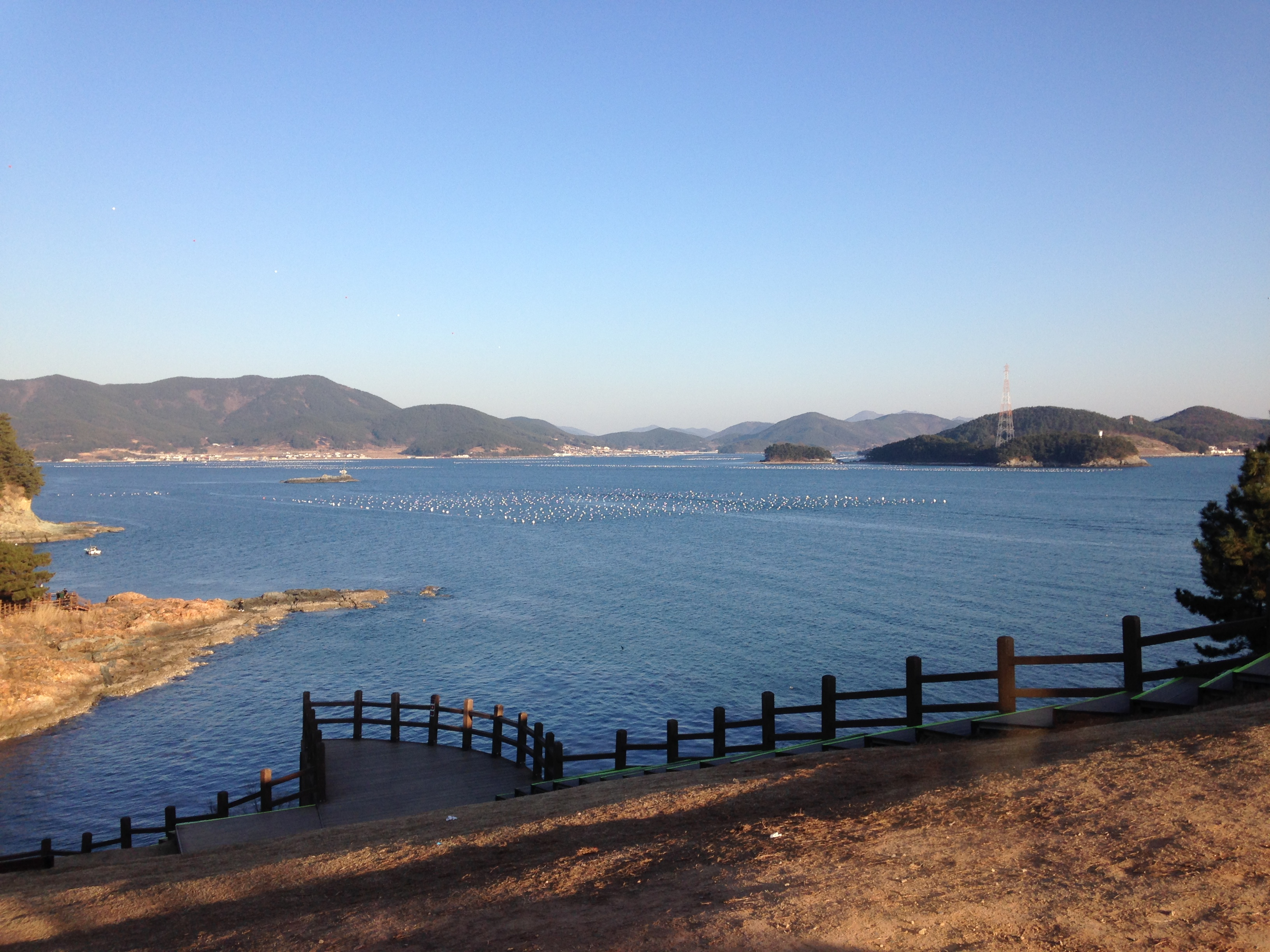 Yi Sun-Sin Park(Tongyeong, Gyeongsangnam-do, Republic of Korea)